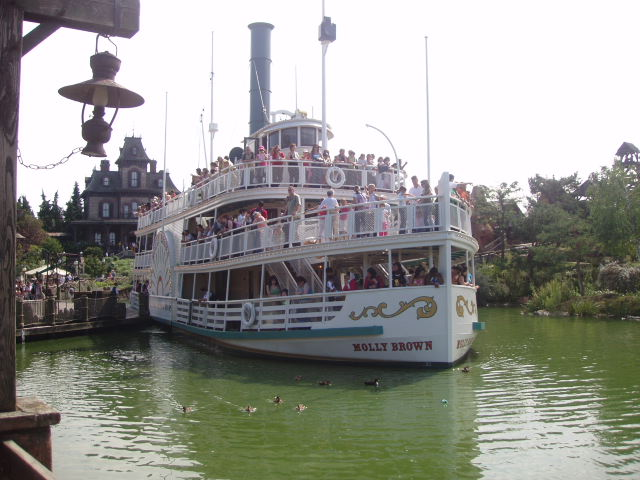 Faux river boat, the Molly Brown, at Frontierland, Disneyland Resort Paris